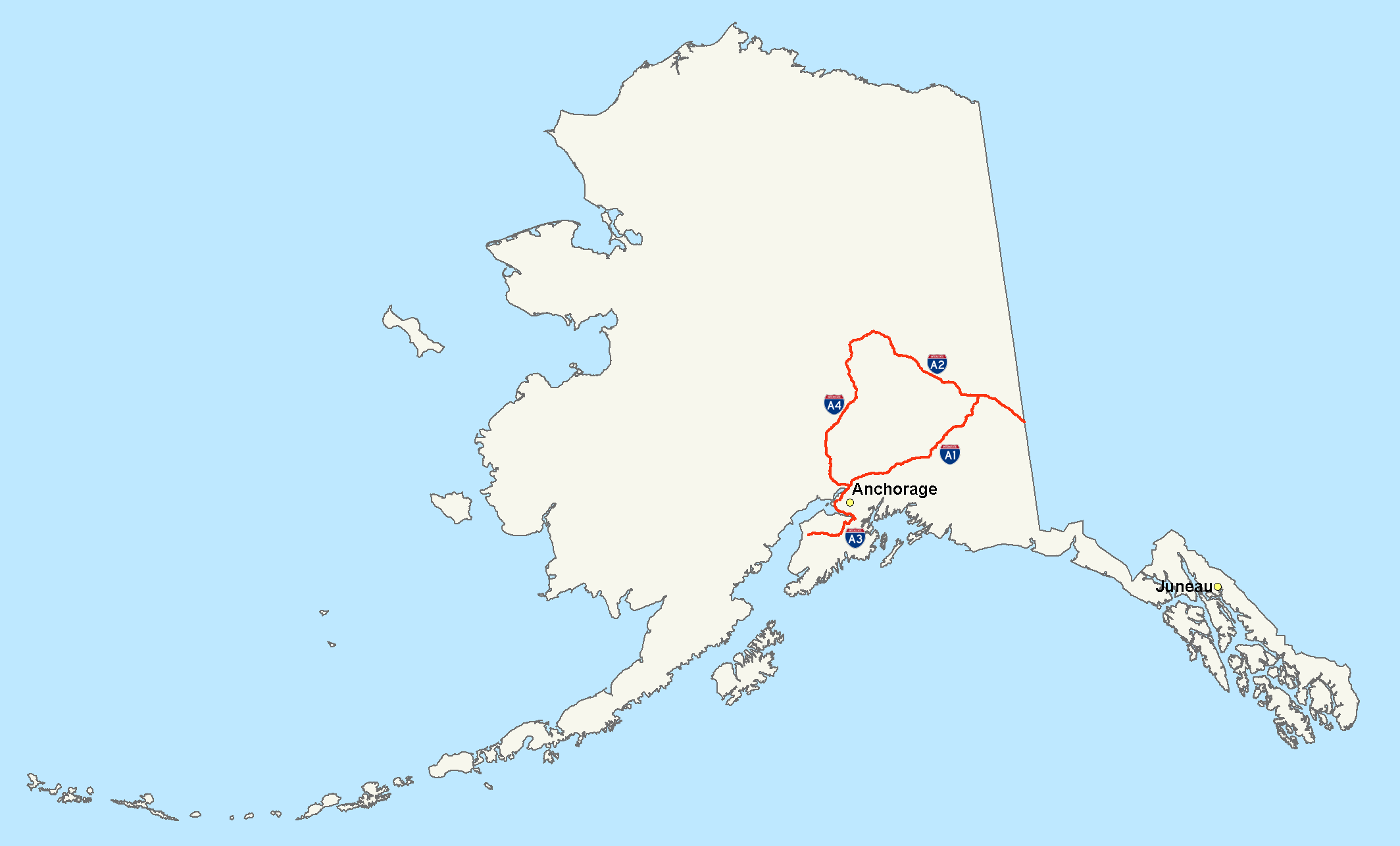 Map of Alaskan Interstate Highways (A1, A2, A3, A4)